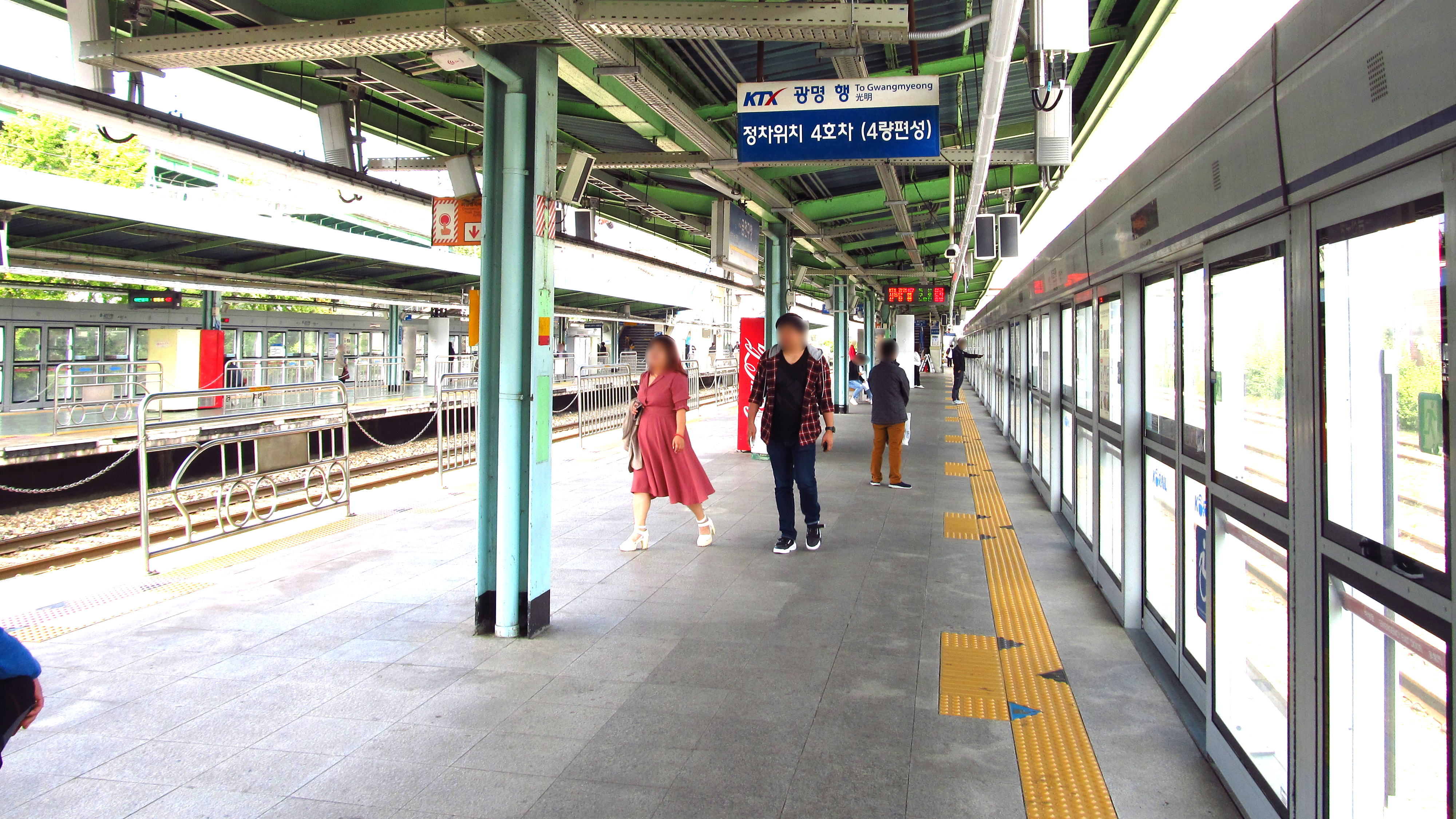 The Byeongjeom-bound platform at Geumcheon-gu Office Station on the Seoul Subway Line 1/Gyeongbu Line in Geumcheon-gu, Seoul, Republic of Korea(South Korea)